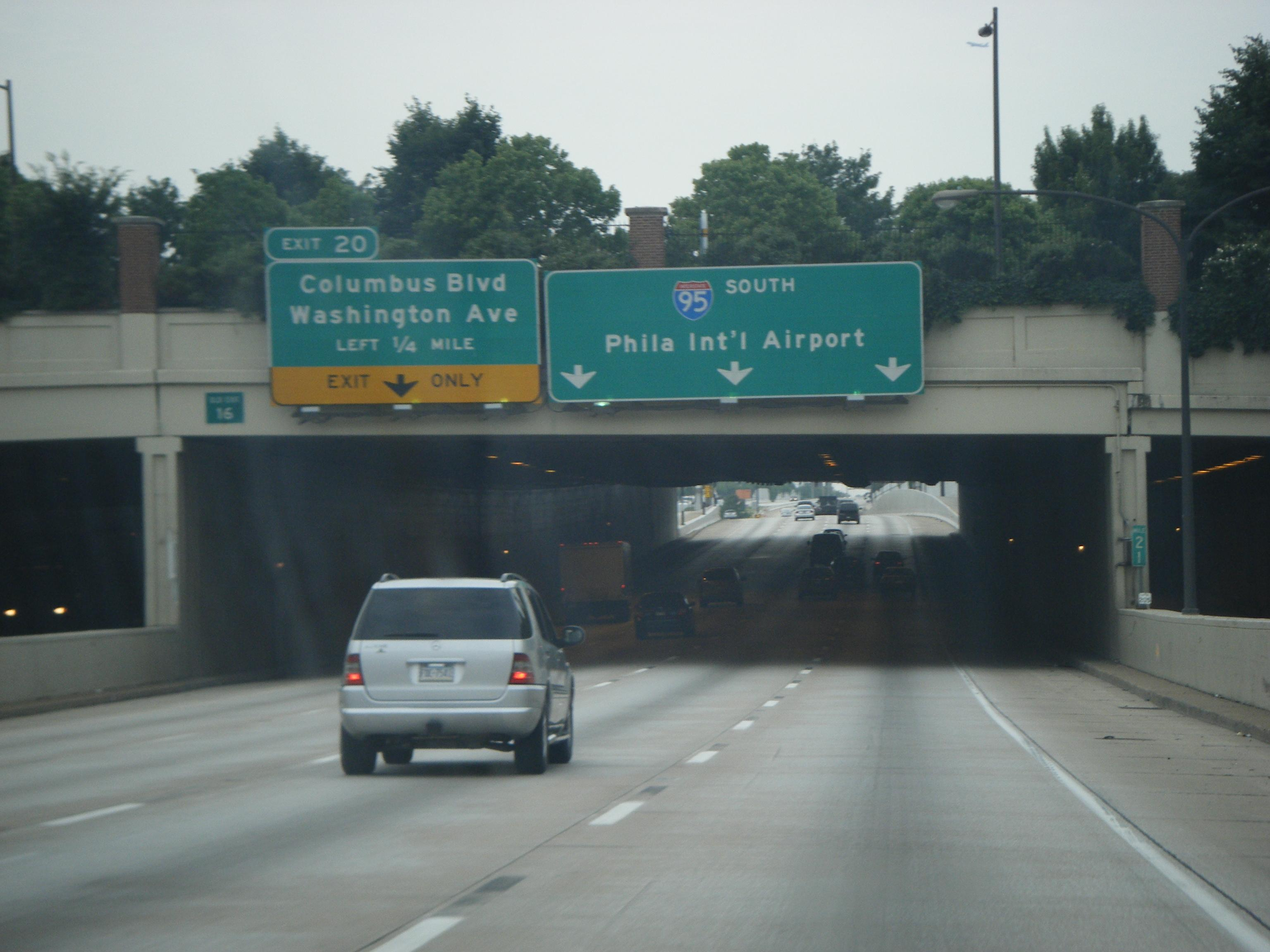 Southbound Interstate 95 1/4 mile from the exit for Columbus Boulevard/Washington Avenue (exit 20) in Philadelphia, Pennsylvania